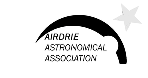 AAALogo